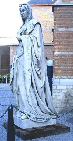 Statue of Margaret of Austria in Mechelen. Photo made by uploader